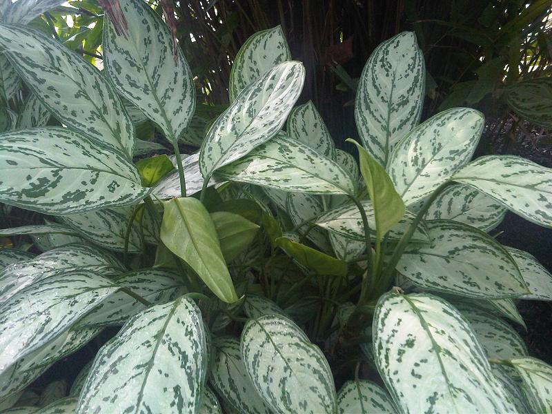 Aglaonema commutatum in Kew Gardens, England.